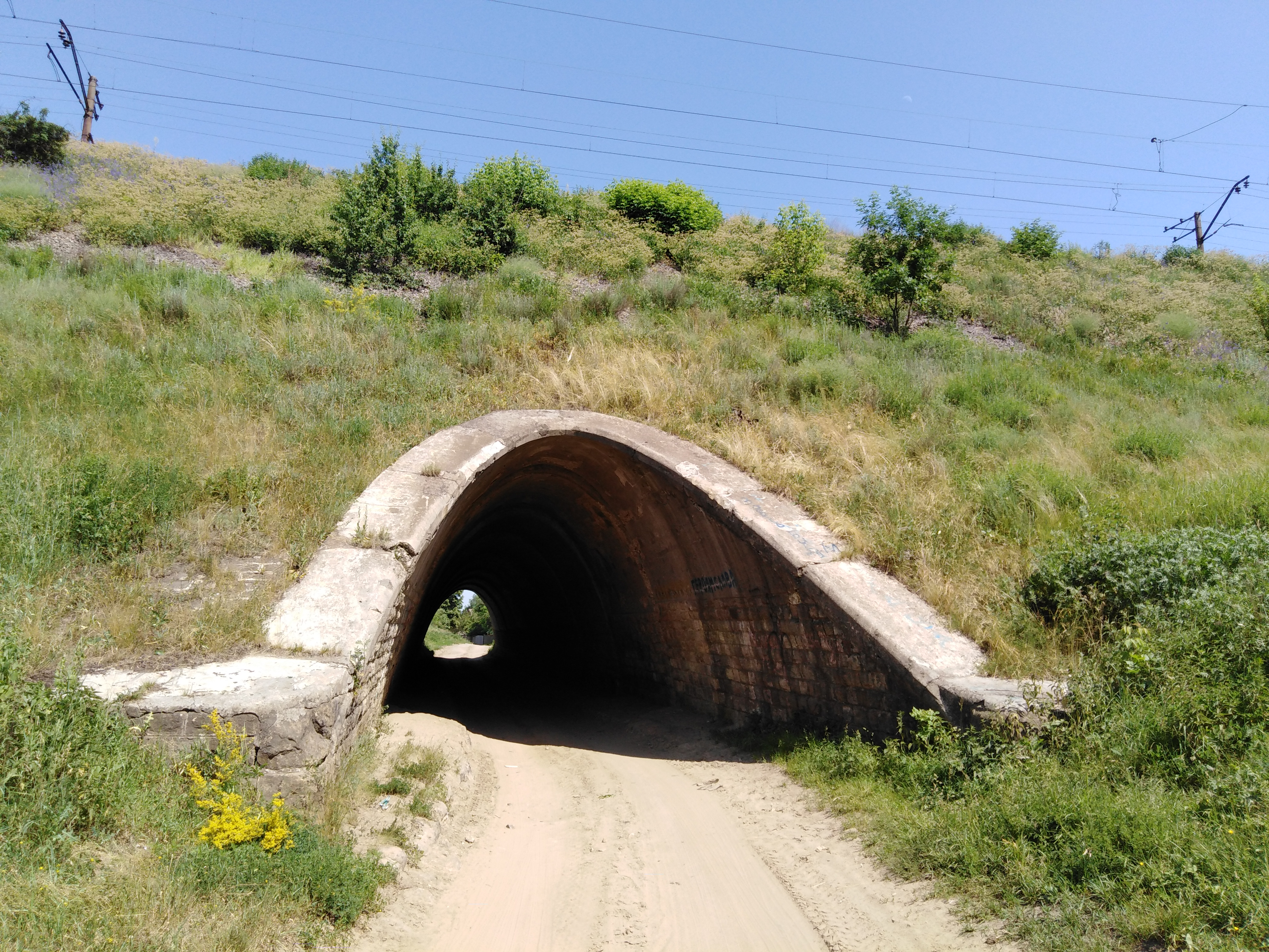 Ukraine, Kharkiv region. Tonnel under the railway embankment in the Borivska-Yuzhnaya and Vasyshevo races. Tonel is located on the outskirts of the village of Gusin Polyana (Zmiiv district).